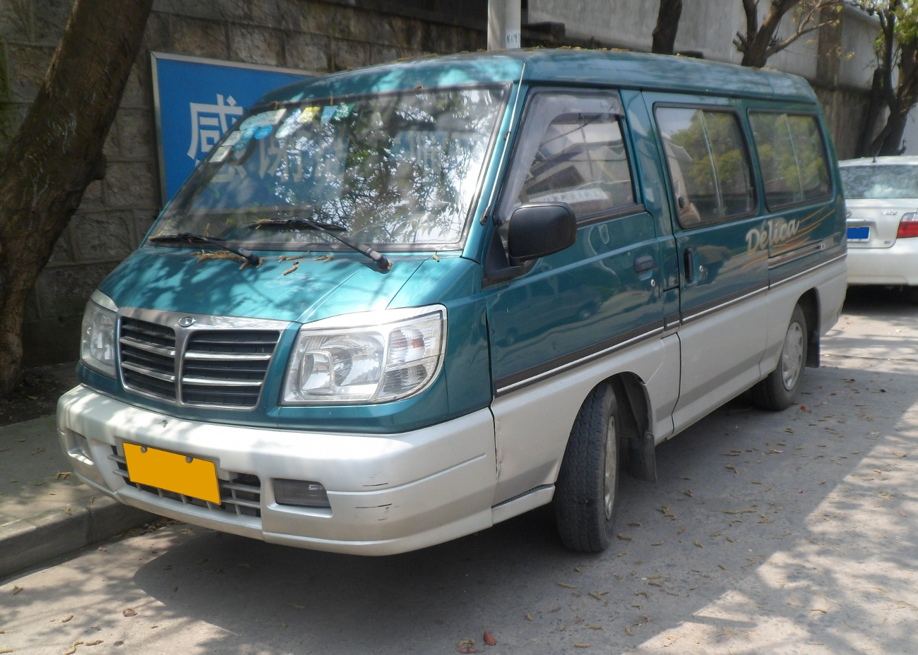 Soueast Delica facelift photographed in Shanghai, China.